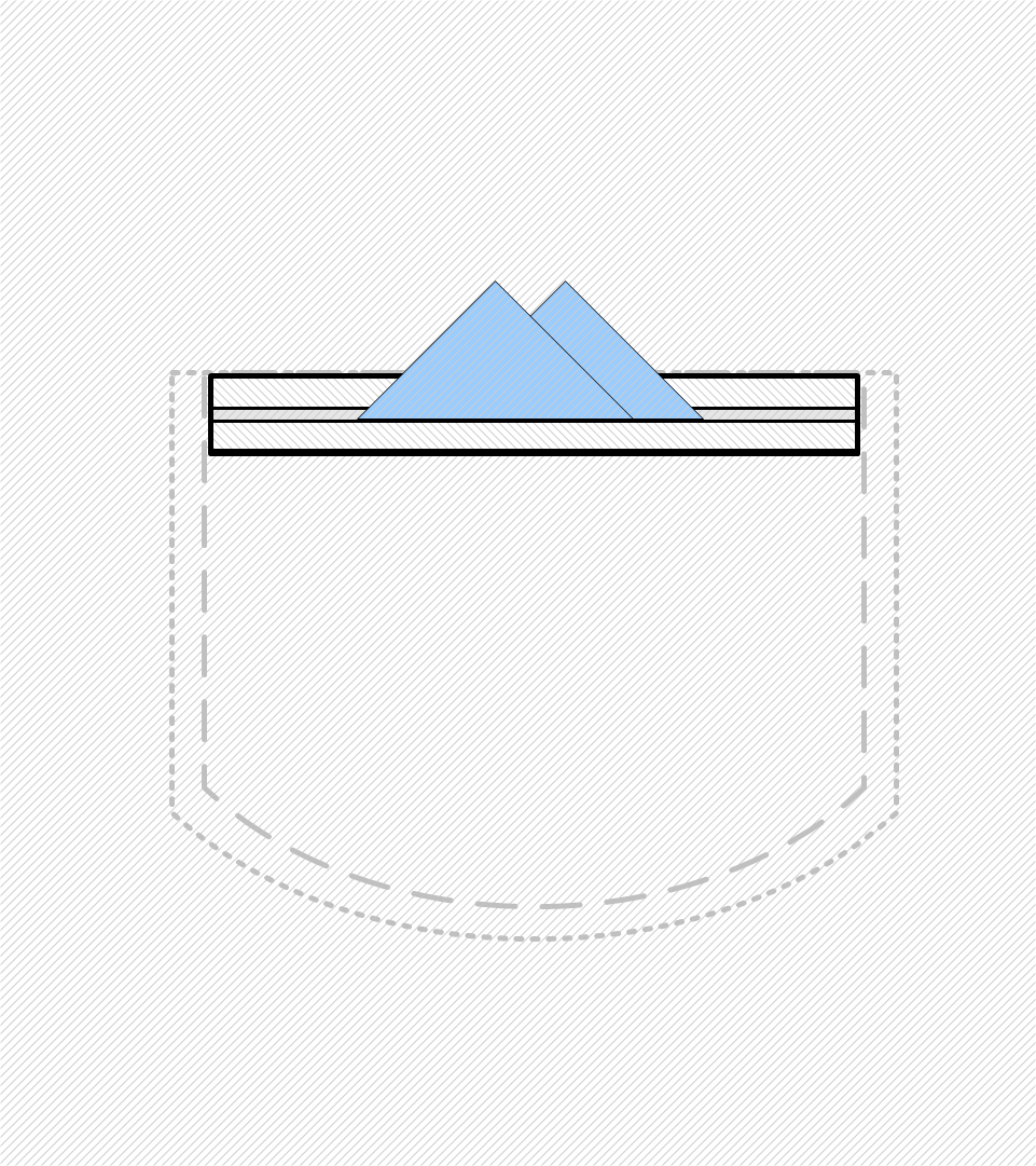 Diagram of a bound or welt pocket.